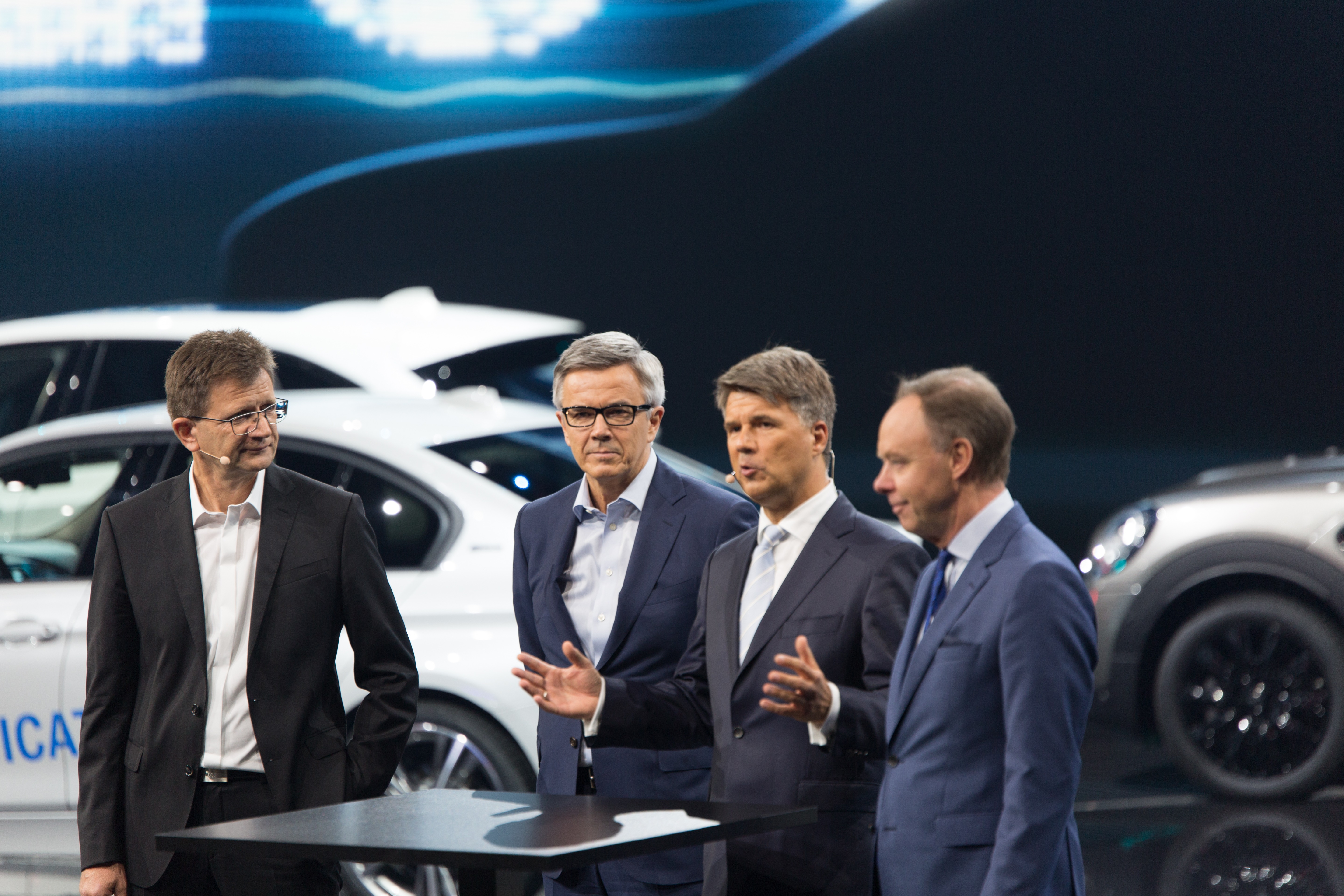 BMW Group press conference: Klaus Fröhlich, Peter Schwarzenbauer, Harald Krüger and Ian Robertson